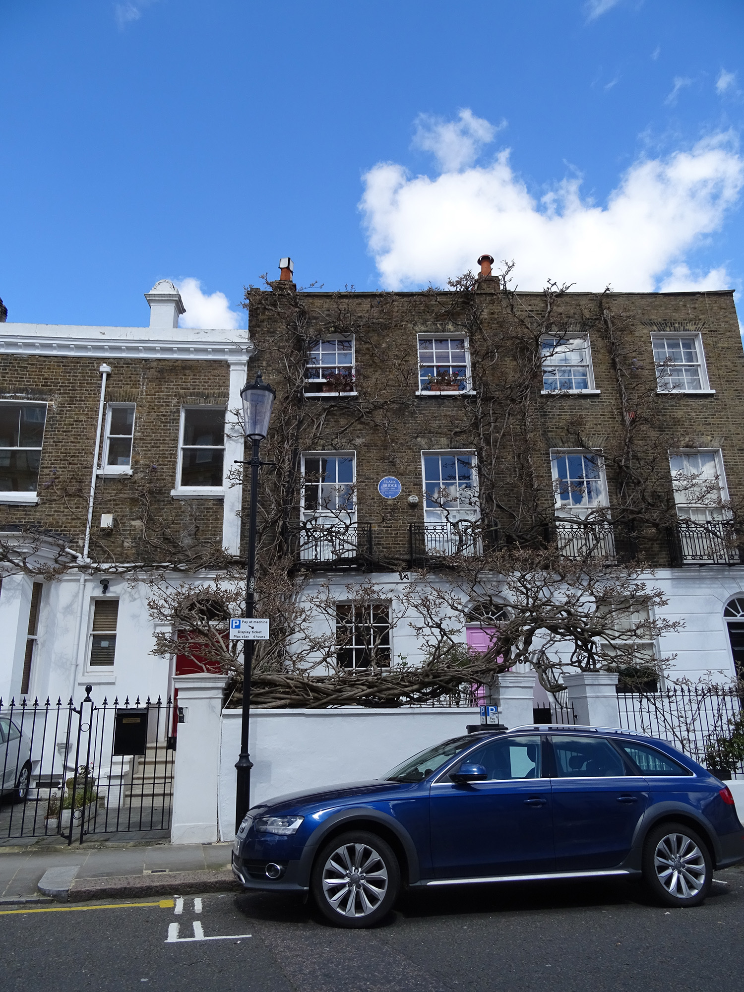 FRANK BRIDGE 1879-1941 Composer and Musician lived here - 4 Bedford Gardens, Holland Park, London W8 7EH, Royal Borough of Kensington and Chelsea